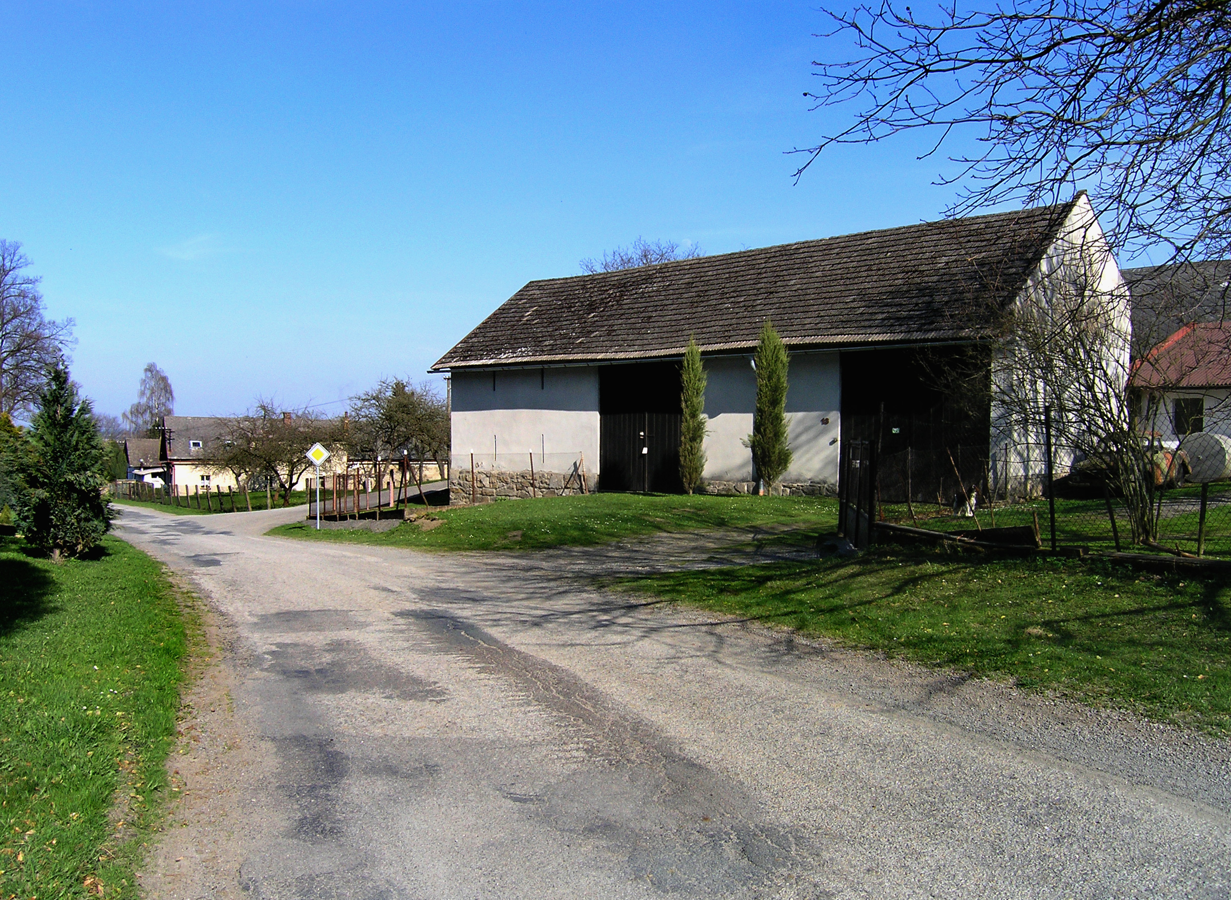 Bratroňov, part of Krásná Hora village, Czech Republic